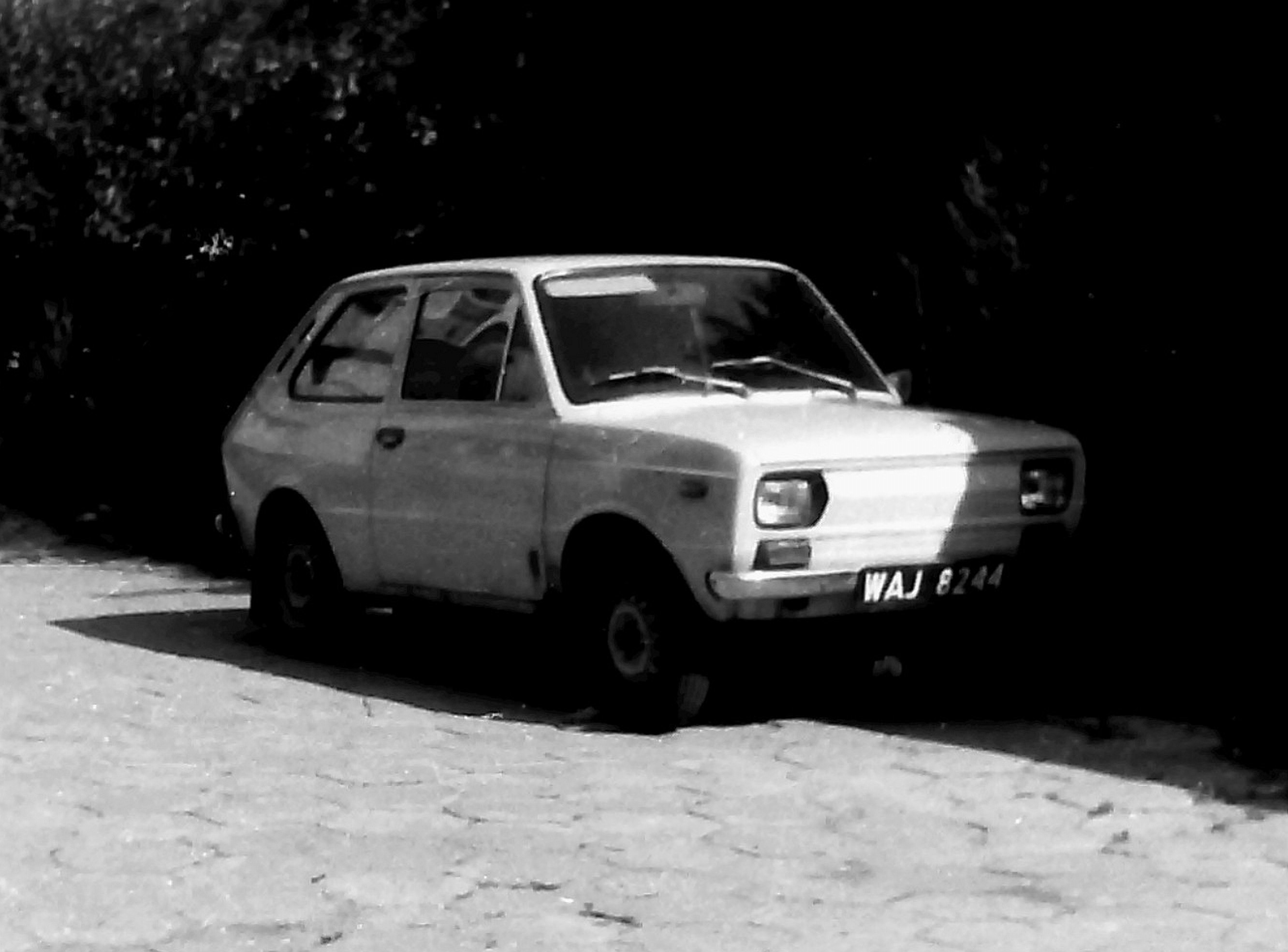 FIAT 133 in Warsaw in the 1980's